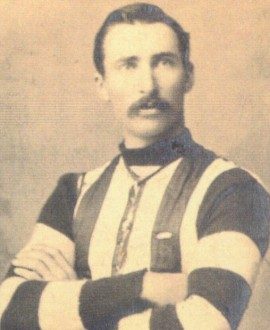 Photo of Matthew Fell from 1898-1904